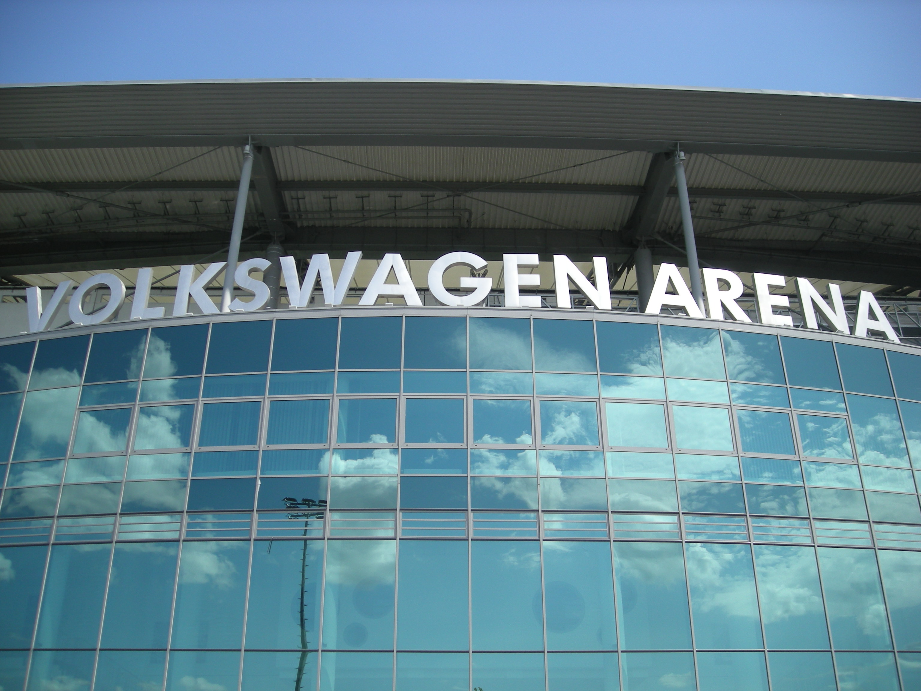 The exterior of Volkswagen Arena in Wolfsburg, Niedersachsen (Germany).